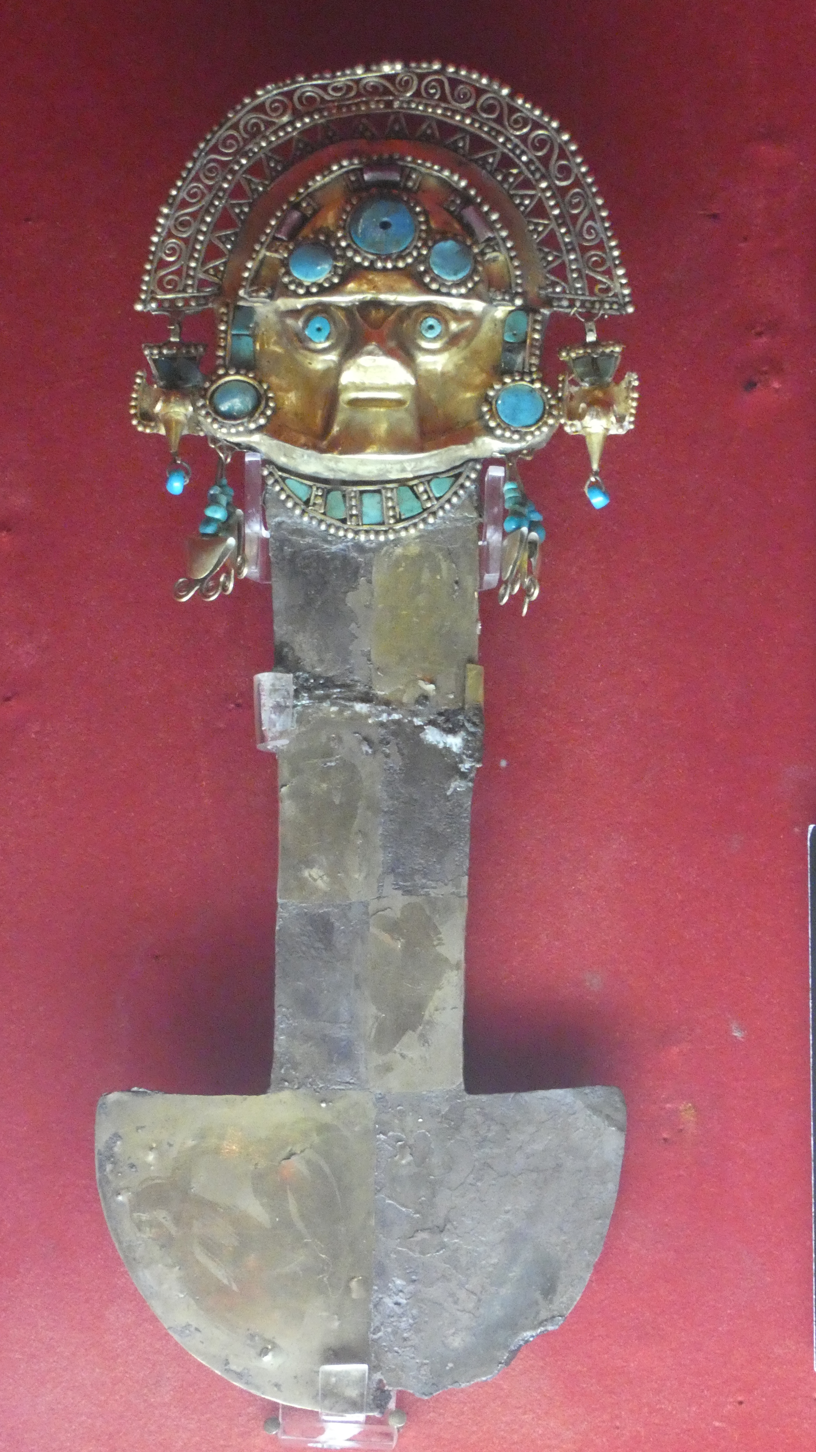 Metal artifacts - Peru Gold Museum and Weapons of the World - Lima - Peru